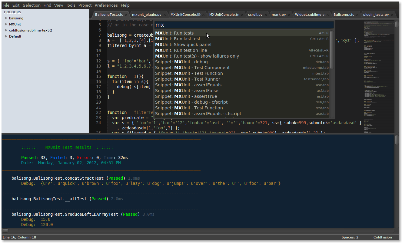 sublime text mxunit screen shot